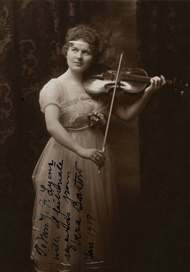 1917 publicity photo of Vera Barstow inscribed to Lucille Lyons of Fort Worth, Texas.